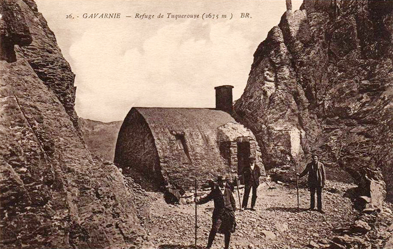 The Tuquerouye refuge at Gavarnie, Hautes-Pyrénées (altitude 2675 m). An entirely stone-built structure.